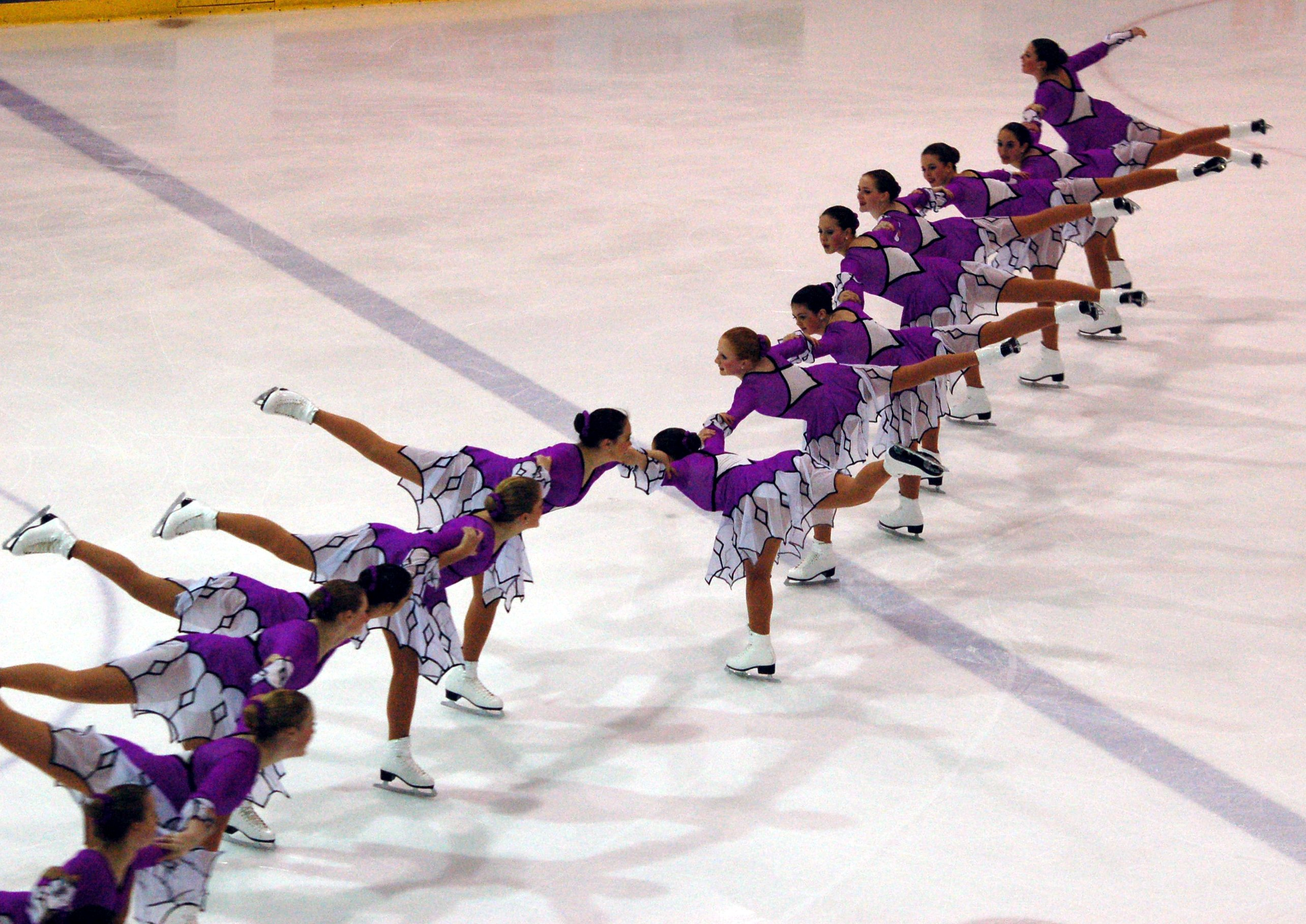 Team Boston at the cape cod classic.